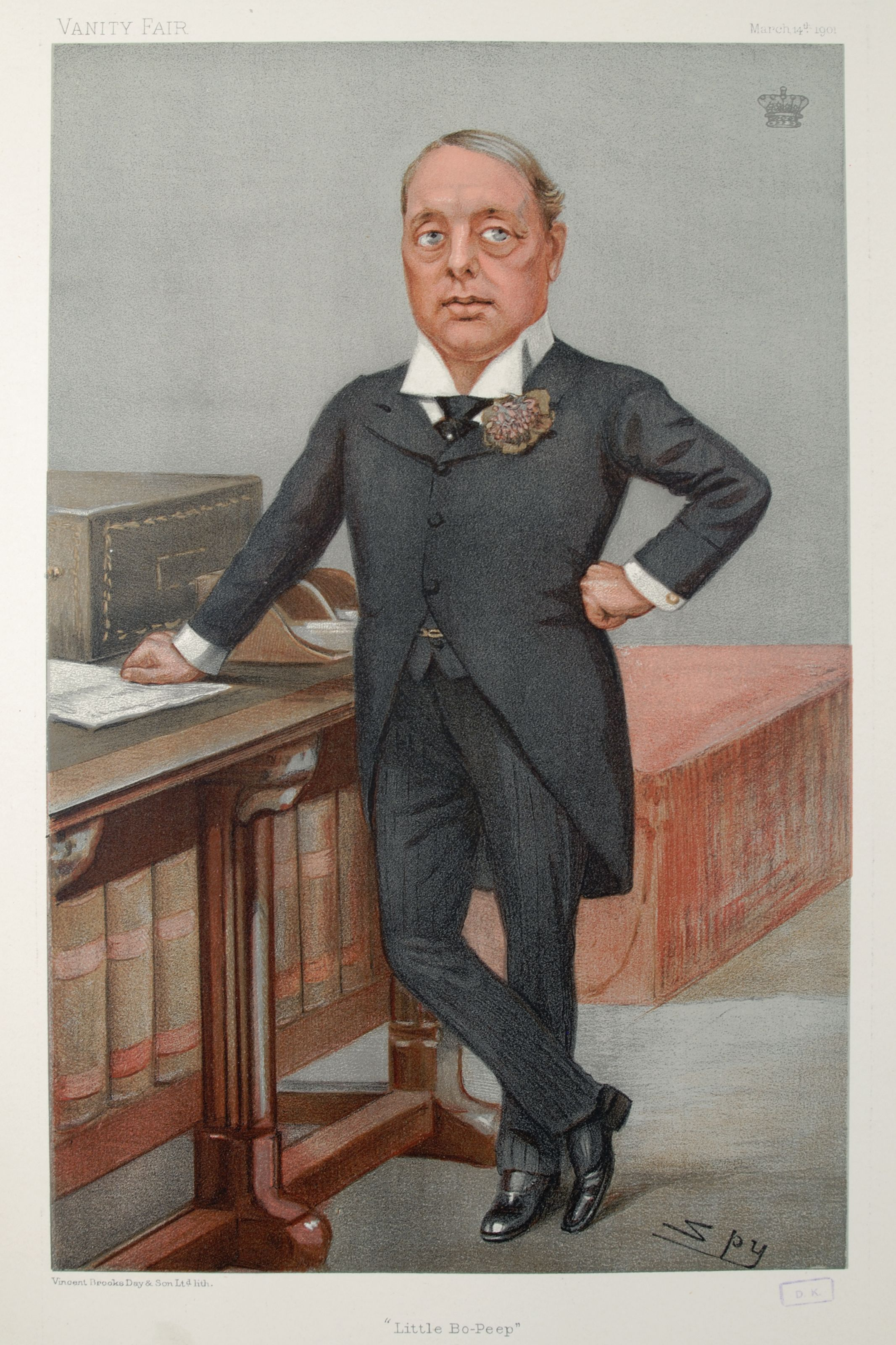 Caricature of Archibald Primrose, 5th Earl of Rosebery. Caption read "Little Bo-Peep".